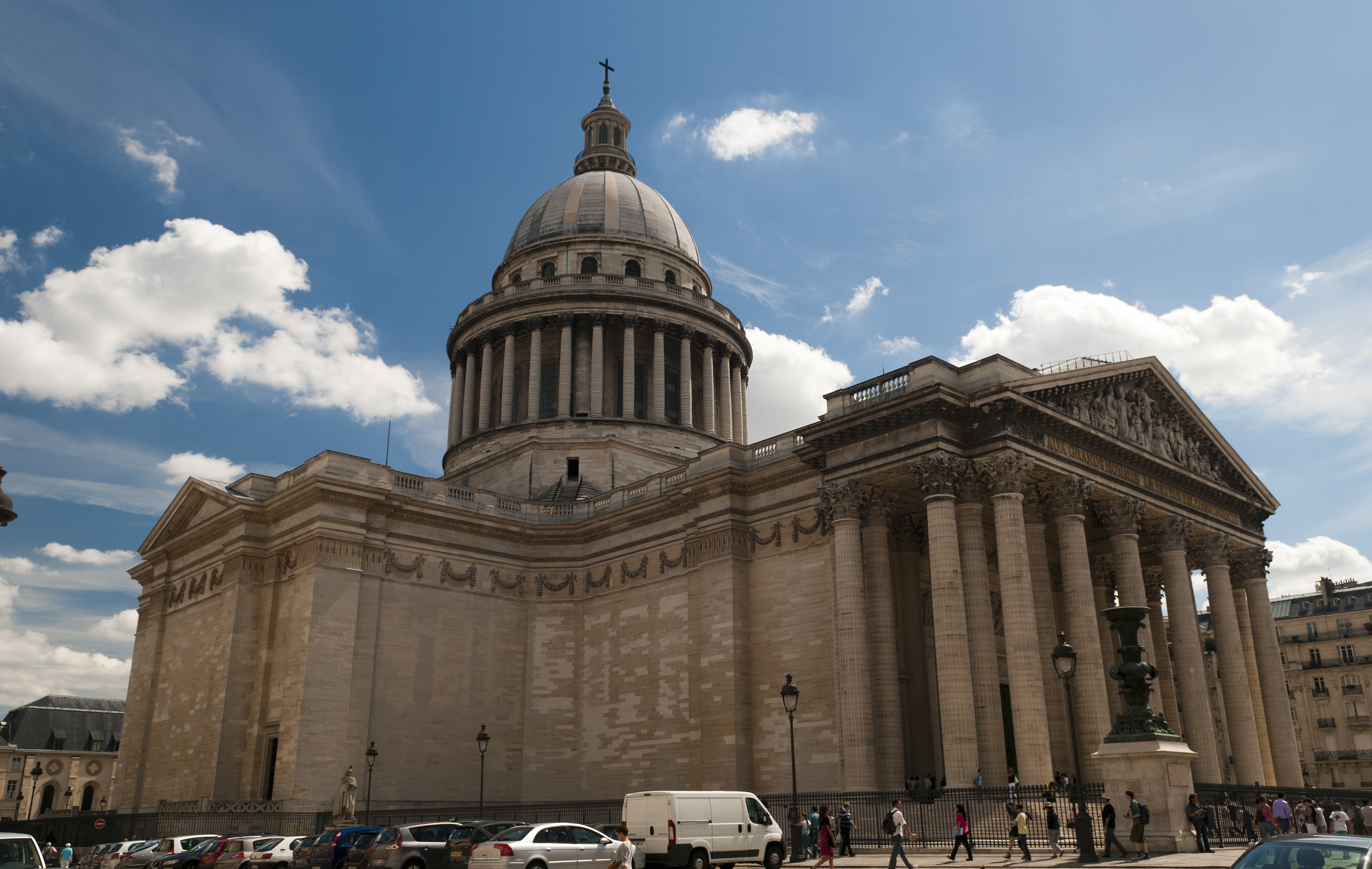 The Panthéon is a building in the Latin Quarter in Paris. It was originally built as a church dedicated to St. Genevieve and to house the reliquary châsse containing her relics but, after many changes, now functions as a secular mausoleum containing the remains of distinguished French citizens. It is an early example of neoclassicism, with a façade modeled on the Pantheon in Rome, surmounted by a dome that owes some of its character to Bramante's "Tempietto". Located in the 5th arrondissement on the Montagne Sainte-Geneviève, the Panthéon looks out over all of Paris. Designer Jacques-Germain Soufflot had the intention of combining the lightness and brightness of the gothic cathedral with classical principles, but its role as a mausoleum required the great gothic windows to be blocked. Nevertheless, it is one of the most important architectural achievements of its time and the first great neoclassical monument.